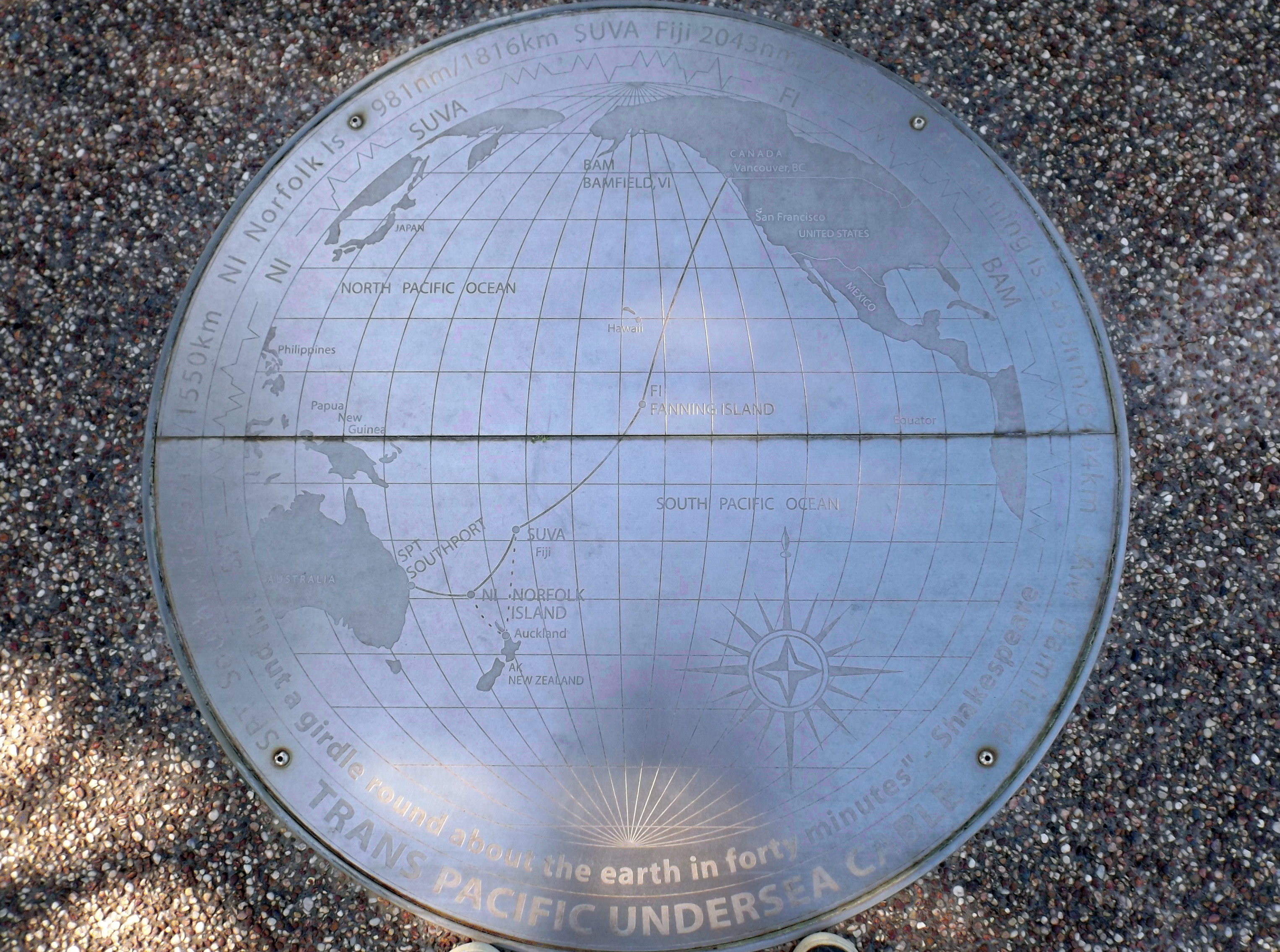 Photo of the plaque at the Southport Cable Hut, Main Beach, Gold Coast City, Queensland, Australia.